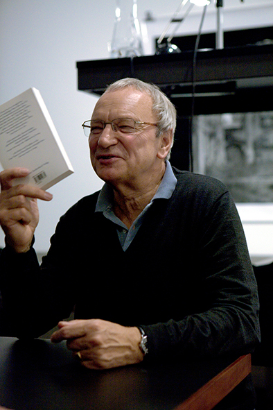 German writer Uwe Timm at Literaturhaus Cologne